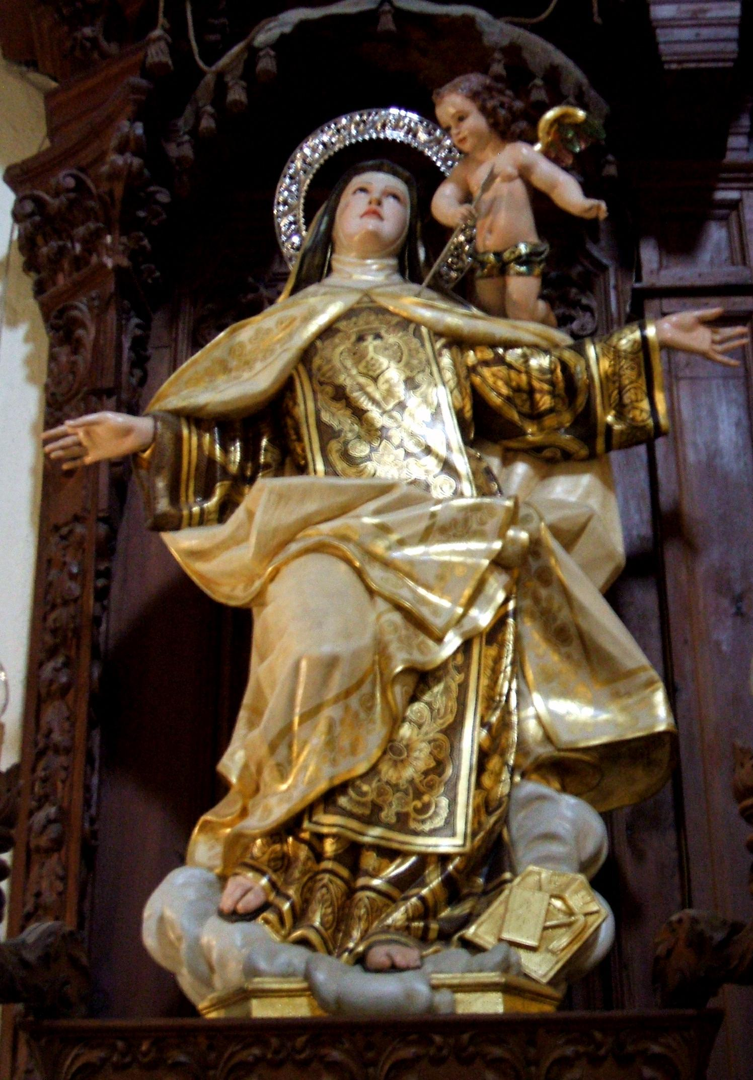 Talla de Santa Teresa de Jesús en la iglesia del Convento de la Encarnación, de MM Carmelitas Descalzas, de Baeza (Jaén, Andalucía, España)